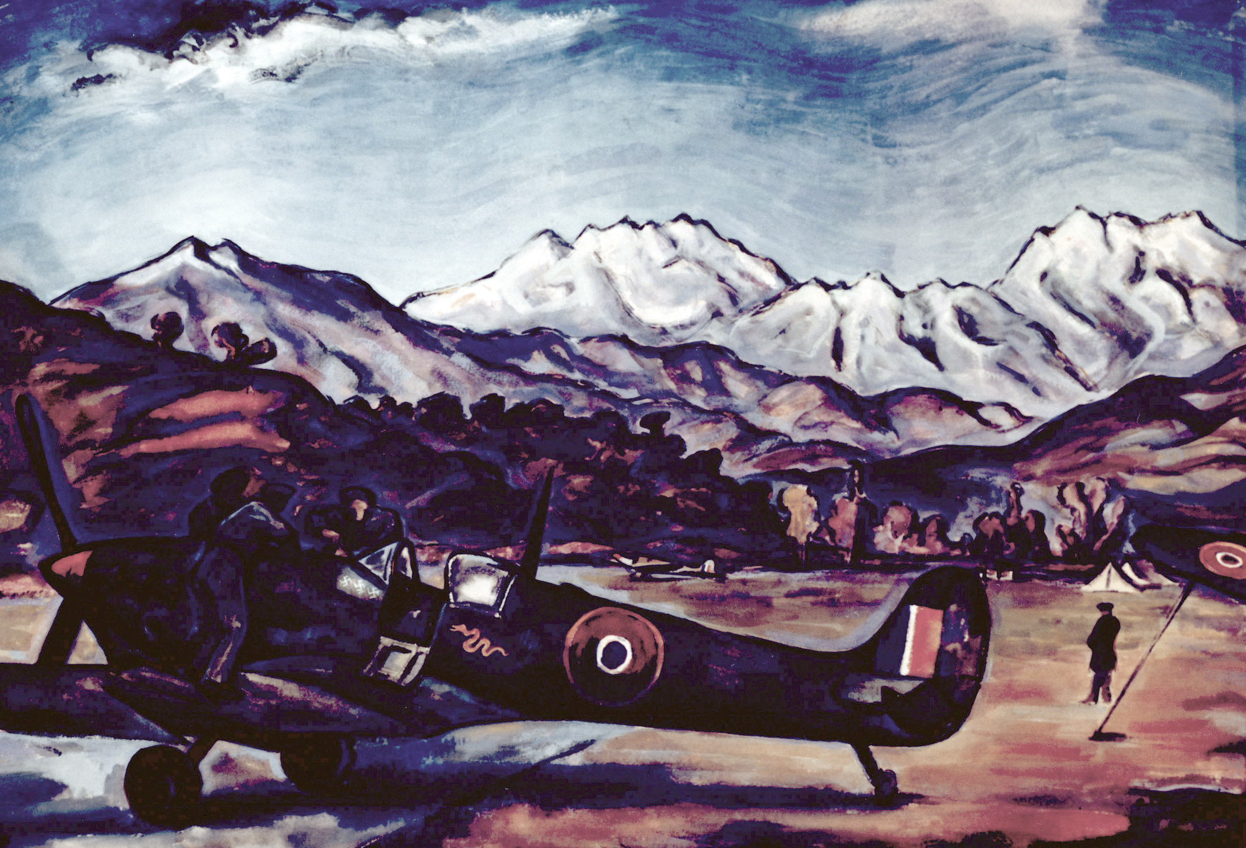 Artwork: "French Spitfire, Corsica", by Rudolph von Ripper. Created c.1944, photographed 1982.